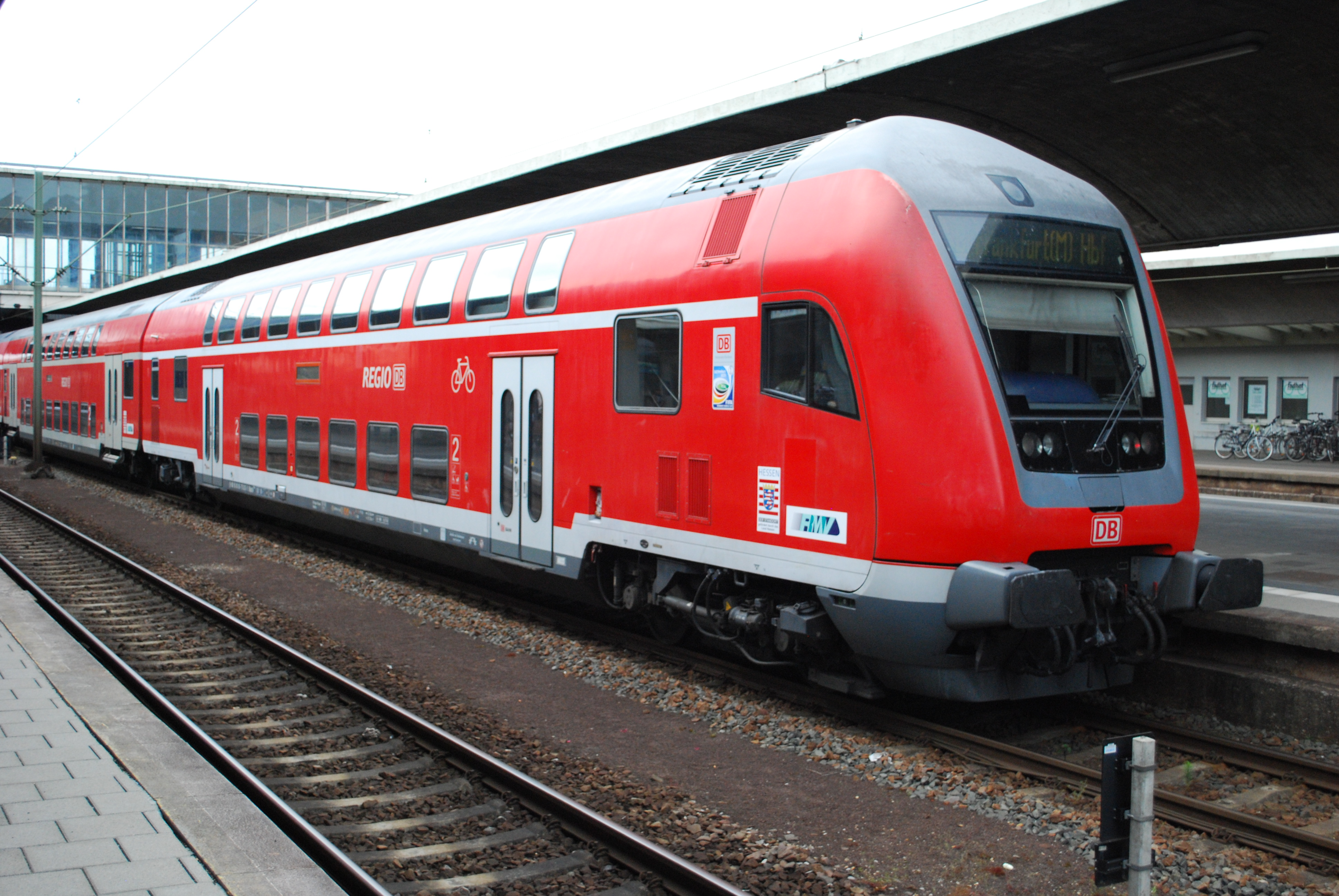 DB Regio double deck 2nd Class DT at Heidelberg Hbf on a Frankfurt Hbf service, 6/11.